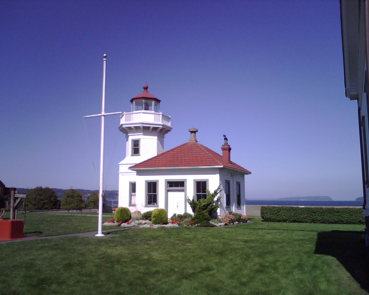 Mukilteo Light, Washington, USA